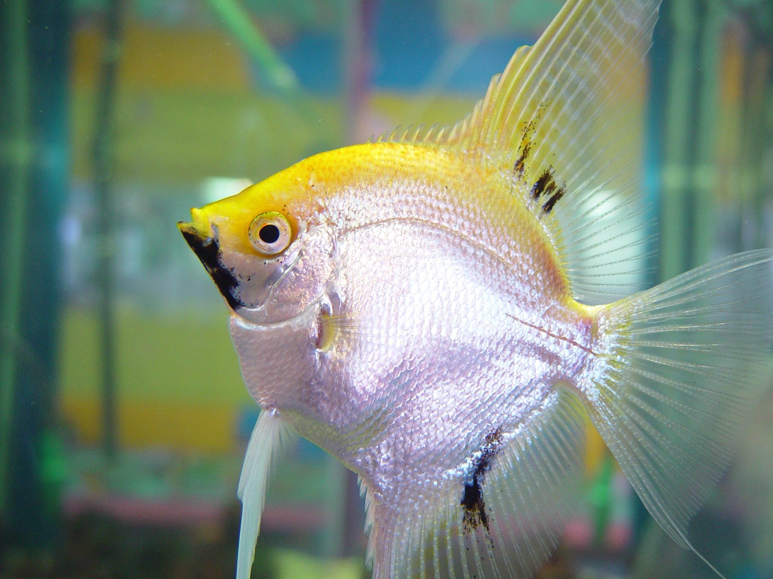 Image title: Yellow and silver fish Image from Public domain images website